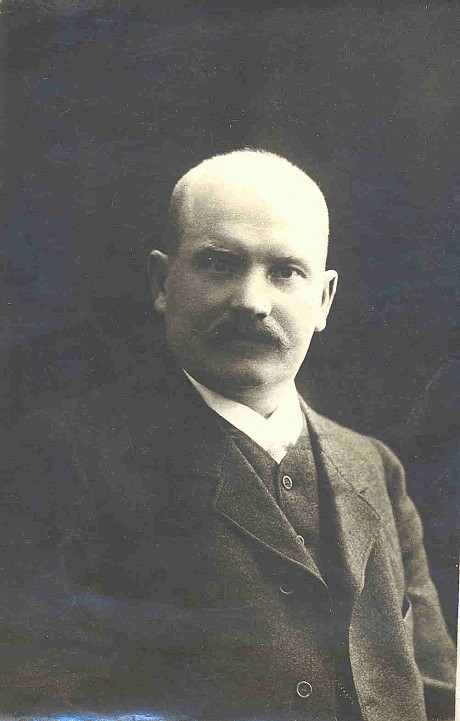 Portrait of Pastor Adam Jende